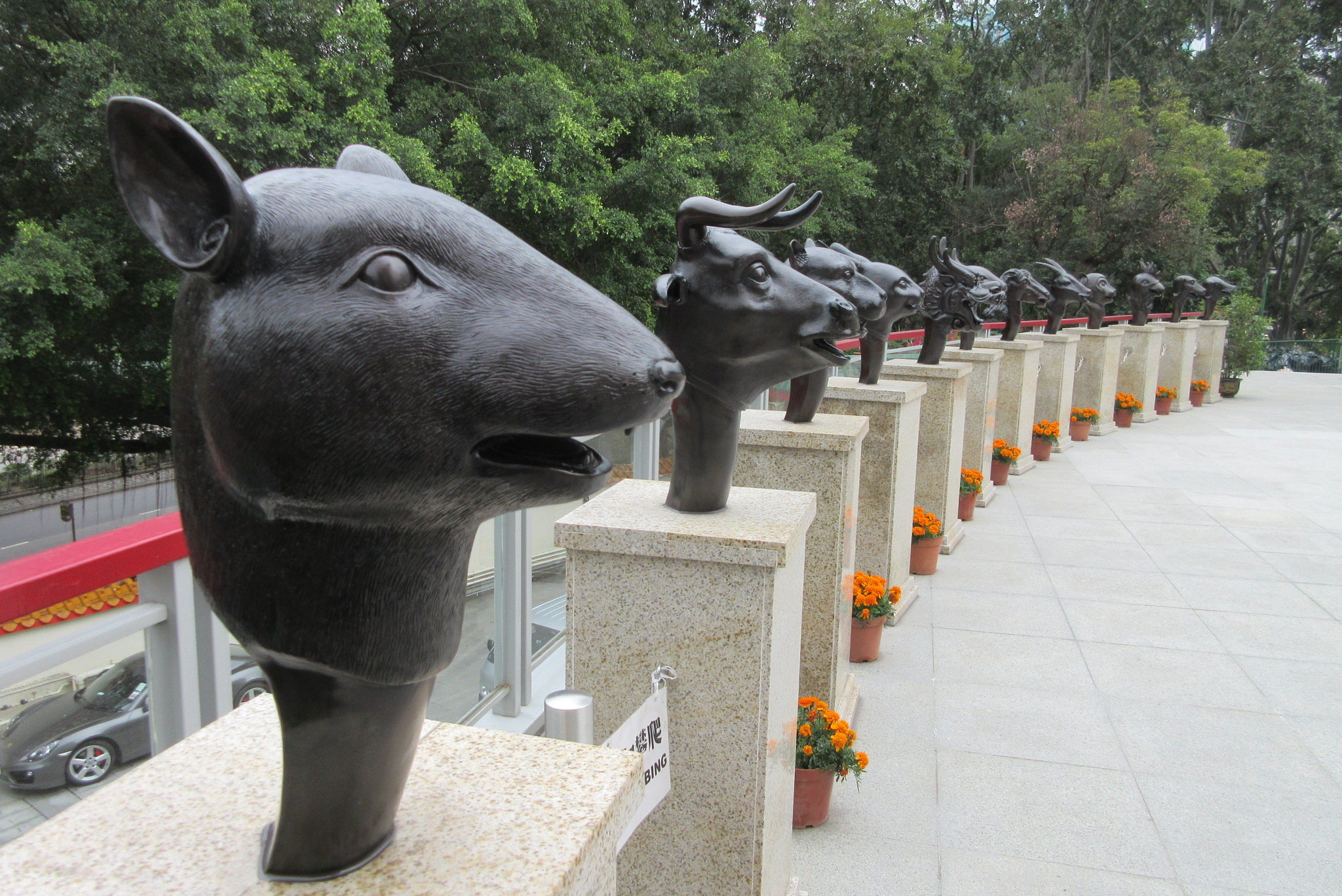 HK 粉嶺 Fanling 蓬瀛仙館 Fung Ying Sen Koon temple Chinese Zodiac statue heads in March 2017